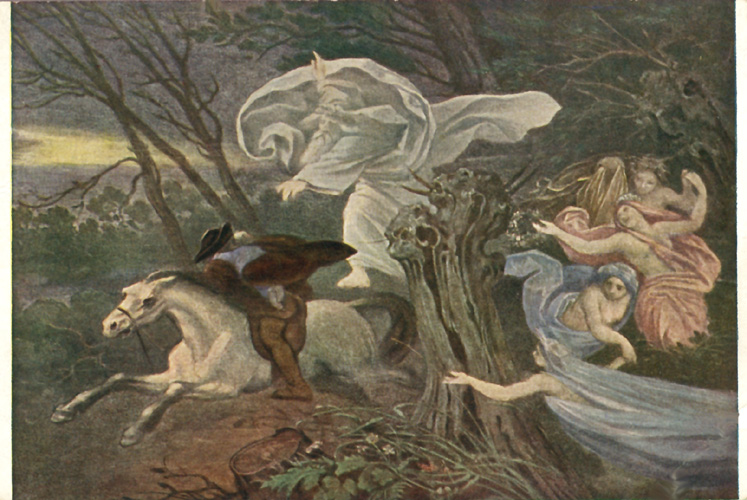 Illustration to Goethe's "Erlkönig"